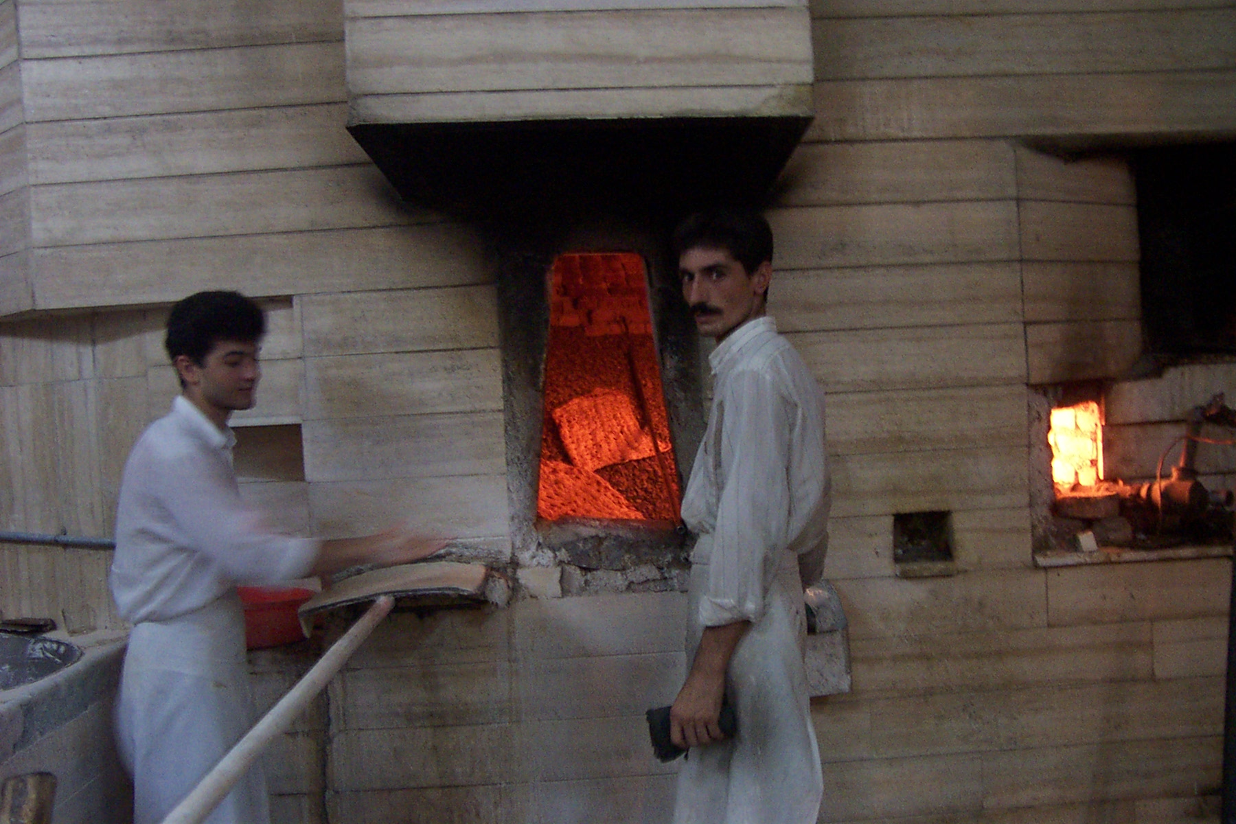 Sangak (flatbread baked on red-hot pebbles) oven and bakers, Tehran, Iran.